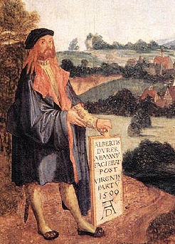 Center panel, detail: Self-portrait of Dürer